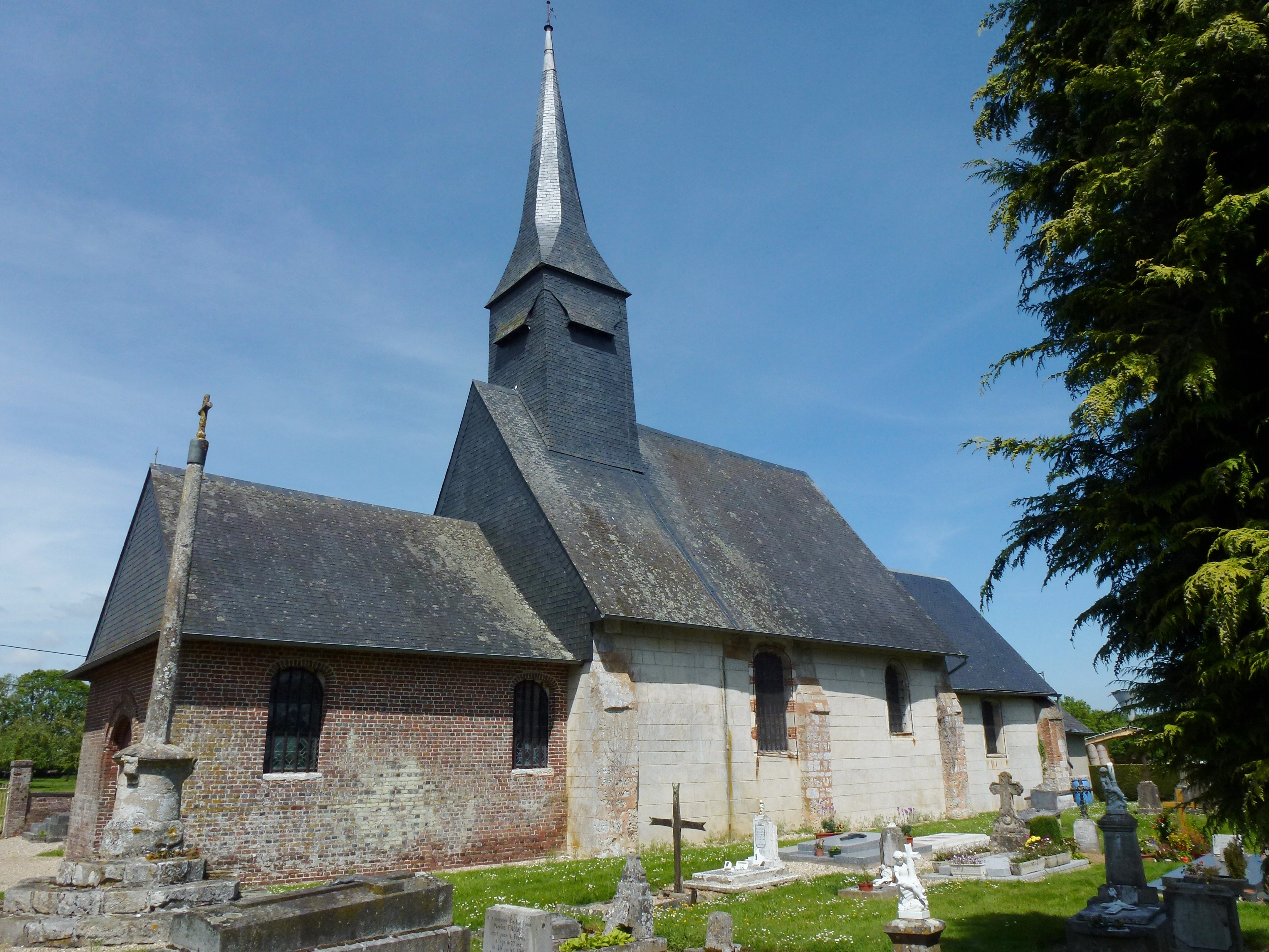 Heudreville-en-Lieuvin (Eure, Fr) église